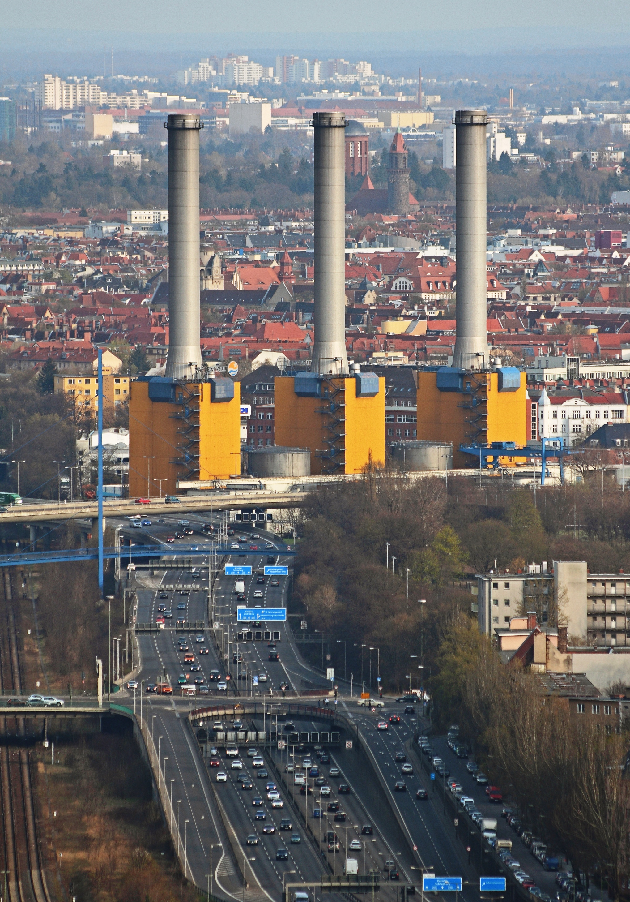 Berlin views from Radio Tower at the Trade Fair.